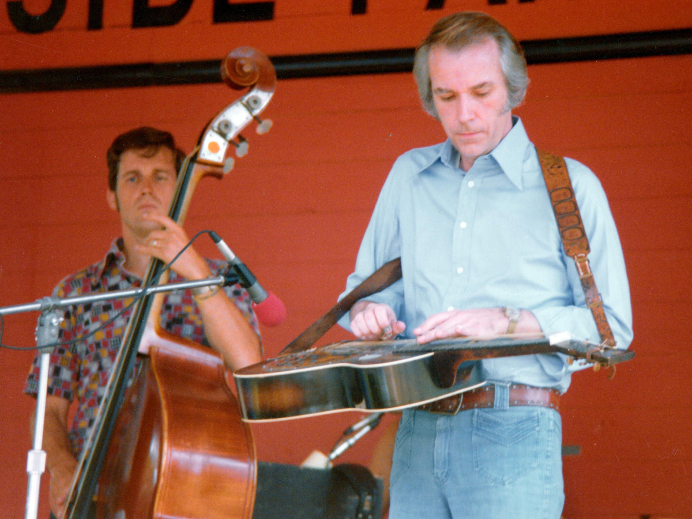 The Seldom Scene (Tom Gray, Mike Auldridge), June 1, 1977